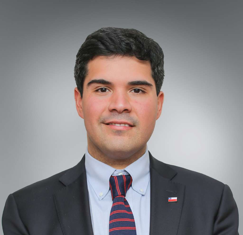 Fotografia oficial de Julio Isamit como Ministro